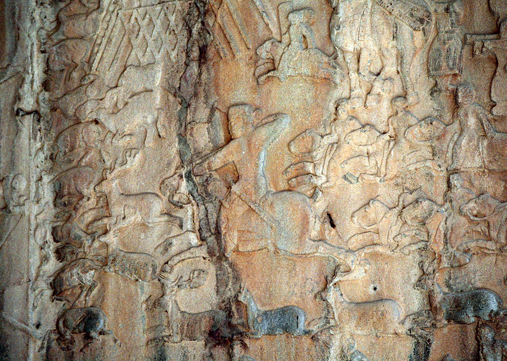 Taq-e Bostan: detail of the low relief depicting a deer hunt, the king hunting on a horse